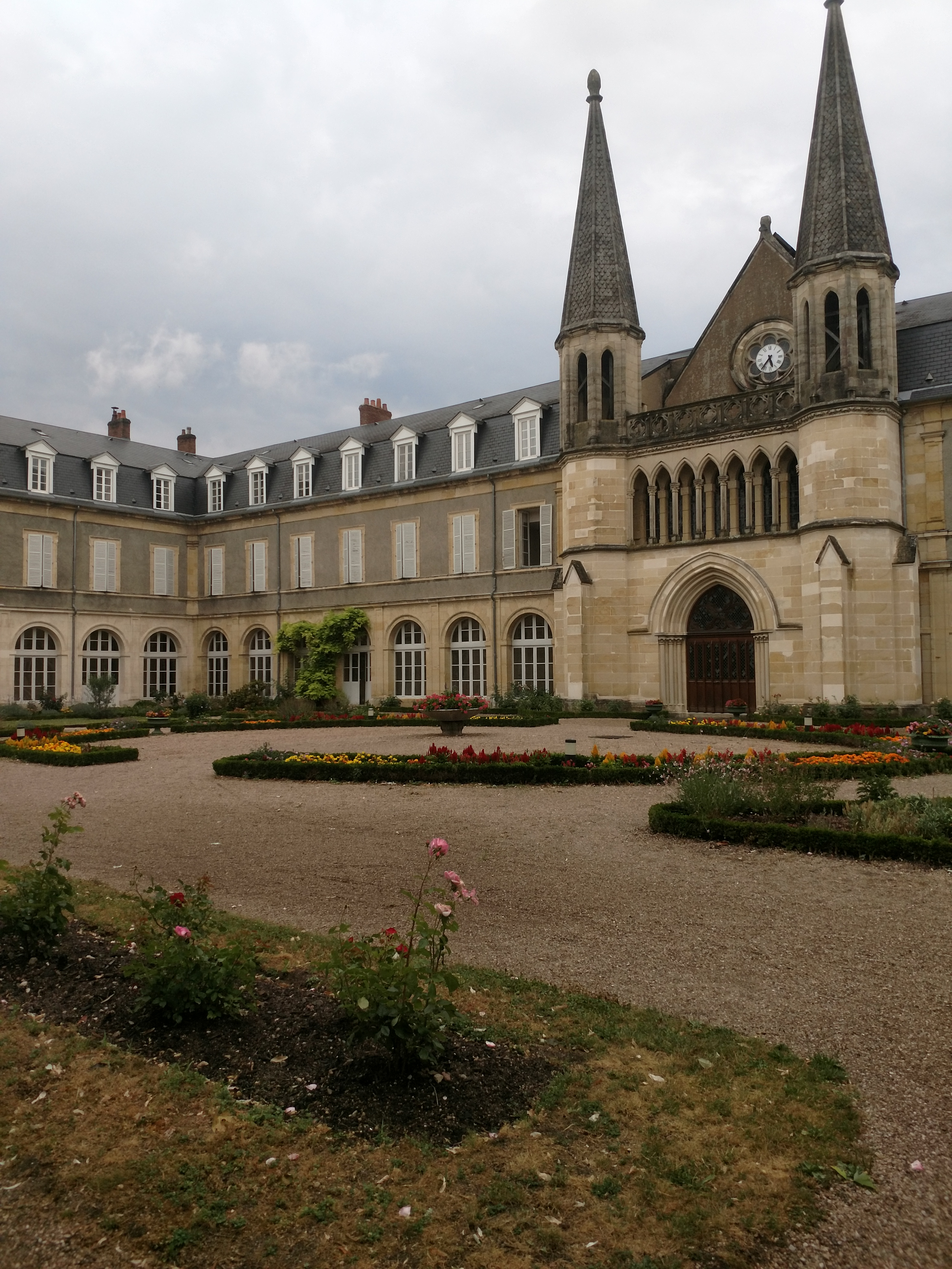 View of the garden and facade of Espace Bernadette, formerly the convent of Saint Gildard.